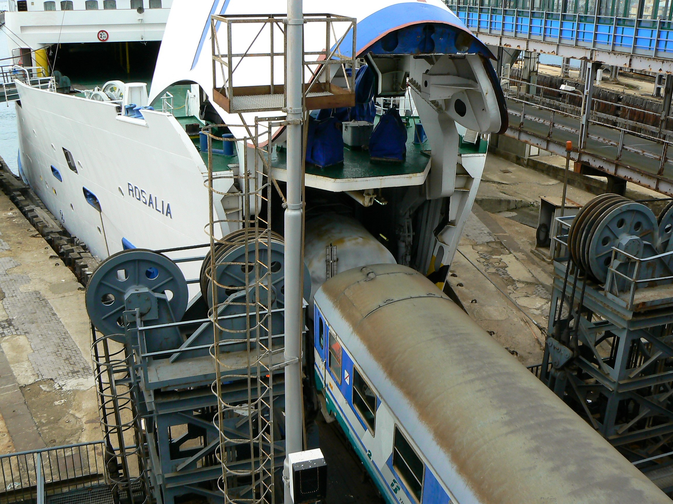 Train ferry, Bagnara – Villa San Giovanni (Battipaglia–Reggio di Calabria, Italy, FS).